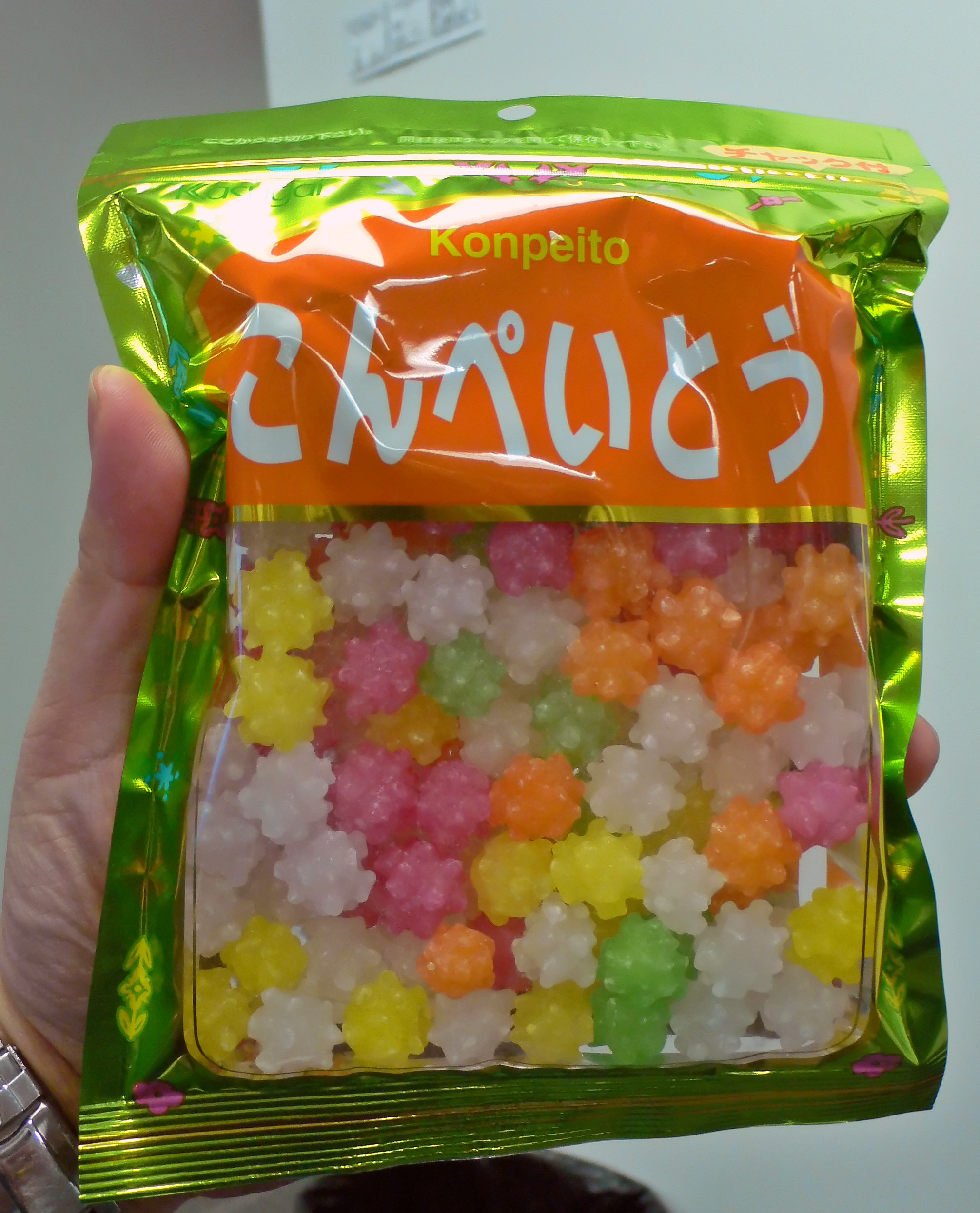 I found Konpeito. This is a real-life version of the break food given to the "soot creatures" in Hayao Miyazaki's "Spirited Away". Found at Mitsuwa Grocery store in San Jose.